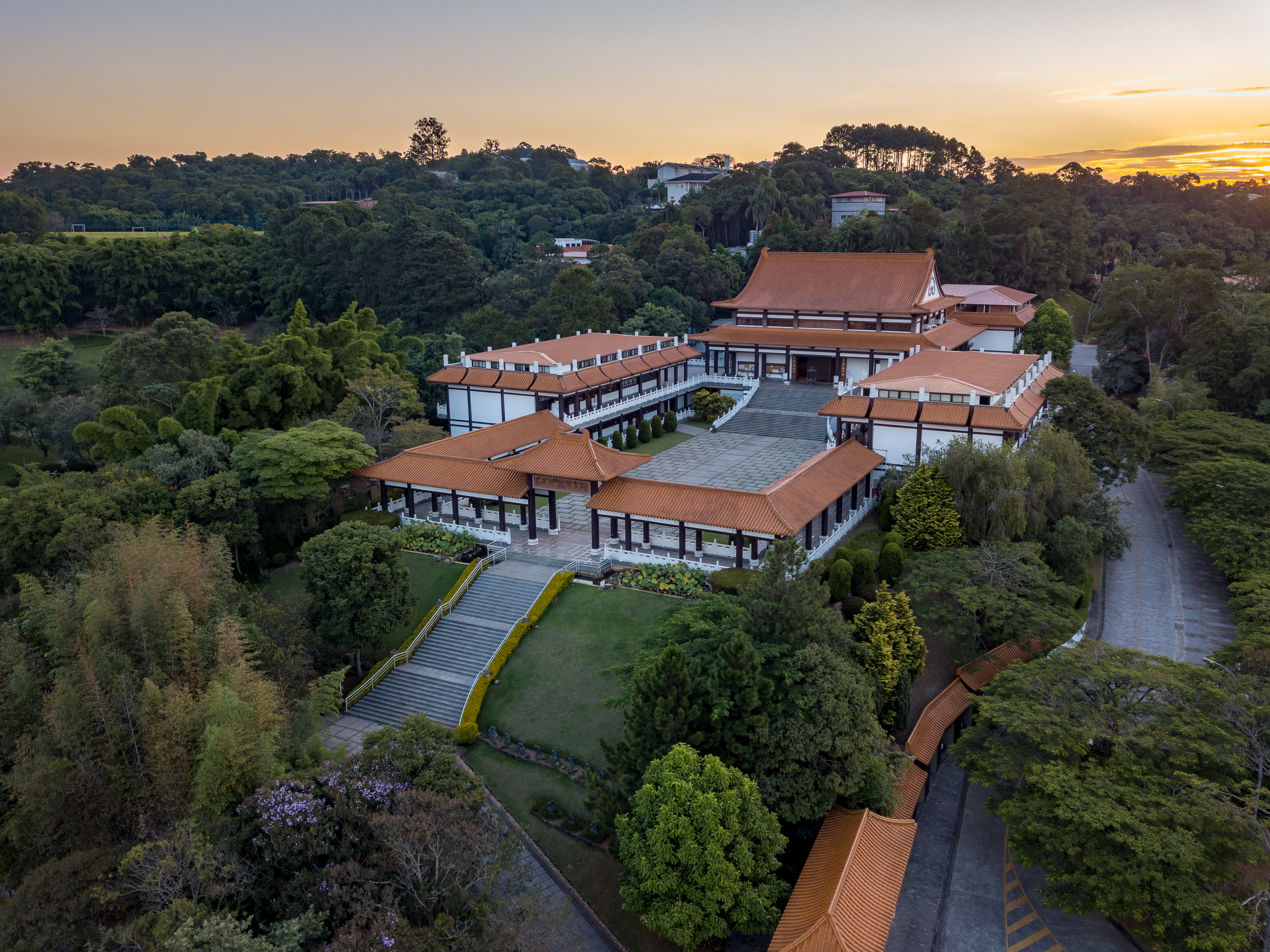 Zu Lai Temple